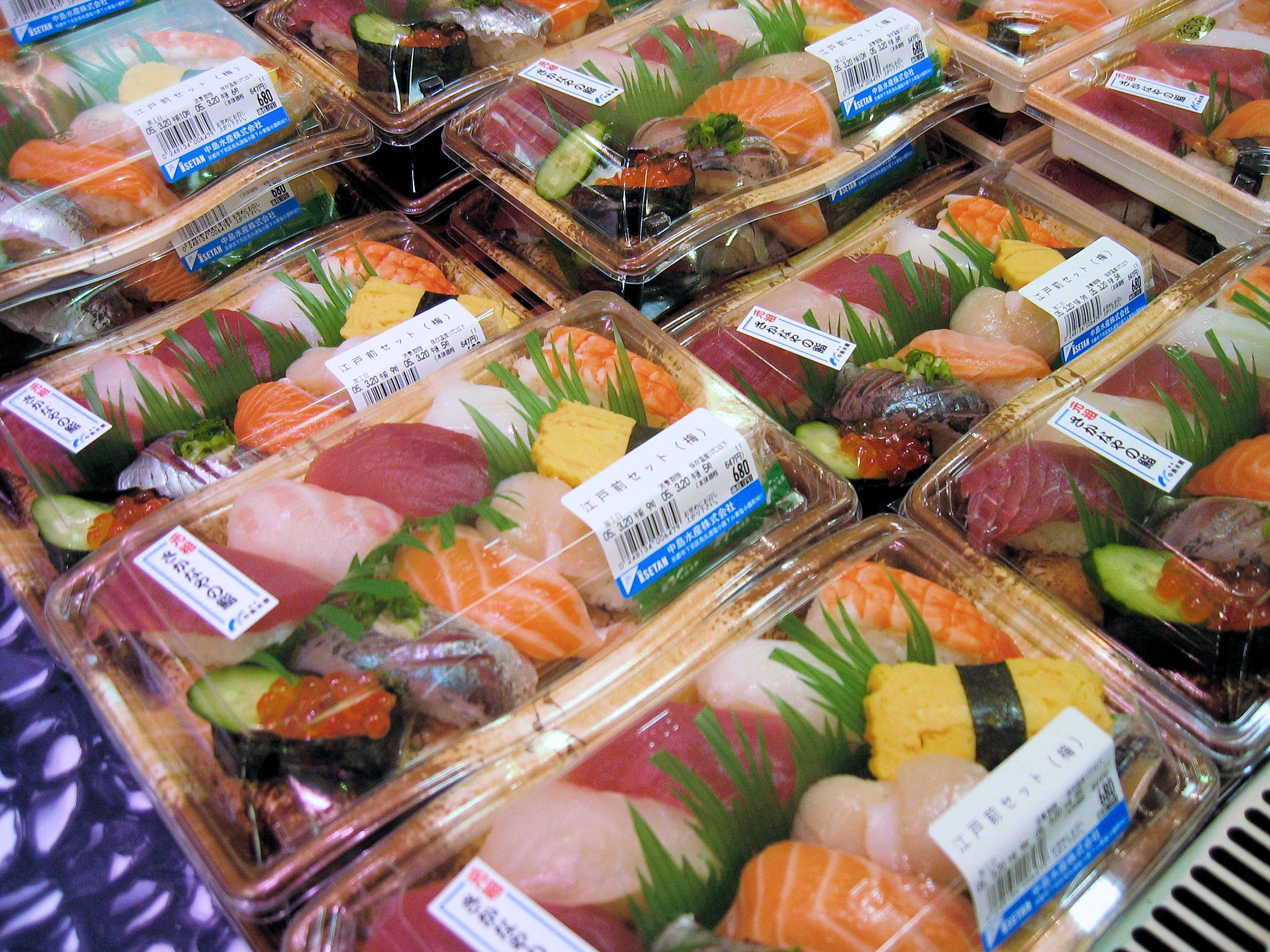 Nigiri sushi for sale at a supermarket in Tokyo